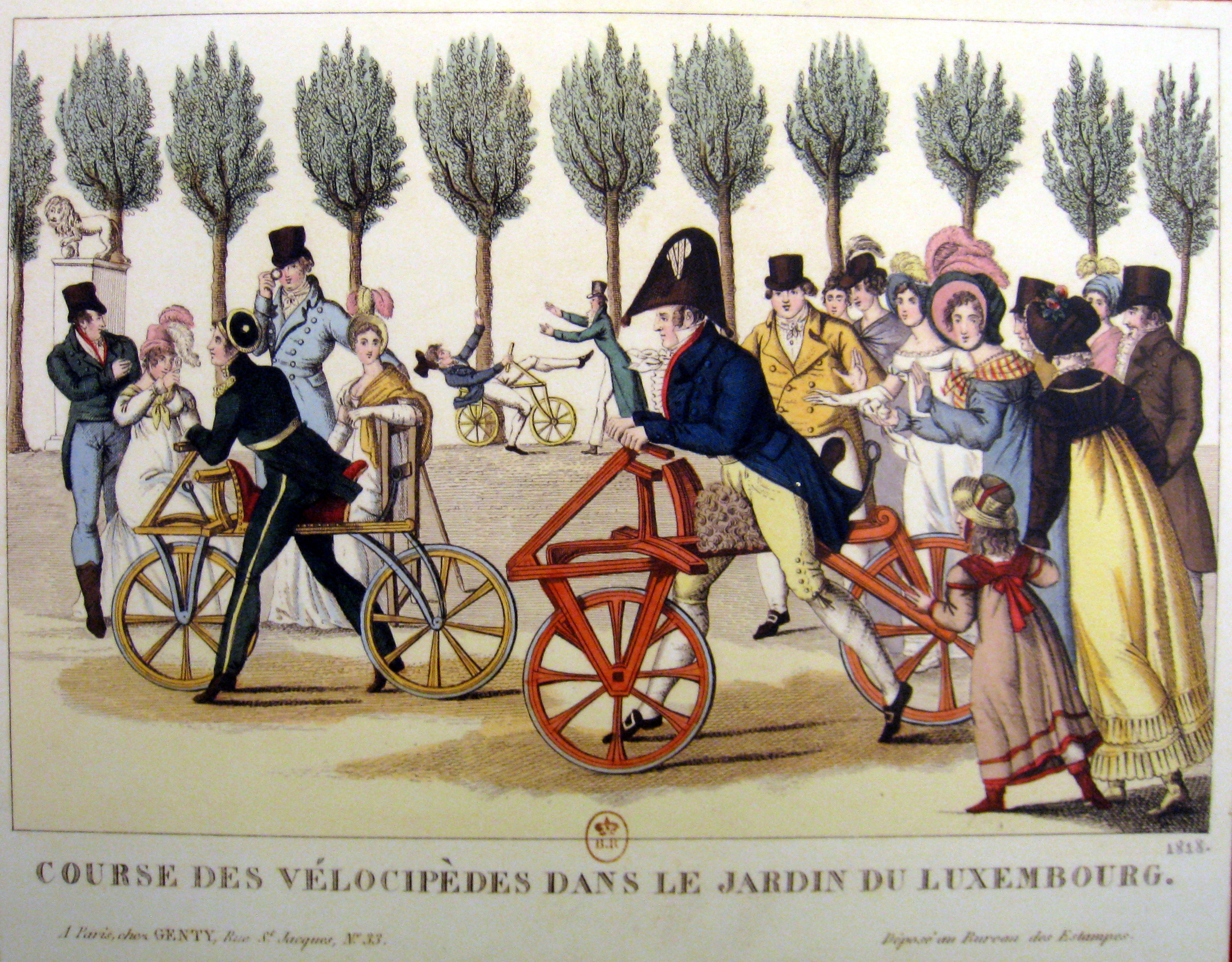 A velocipede race at Jardin du Luxembourg. 1818. A Paris, chez Genty, Rue St. Jacques, N° 33.